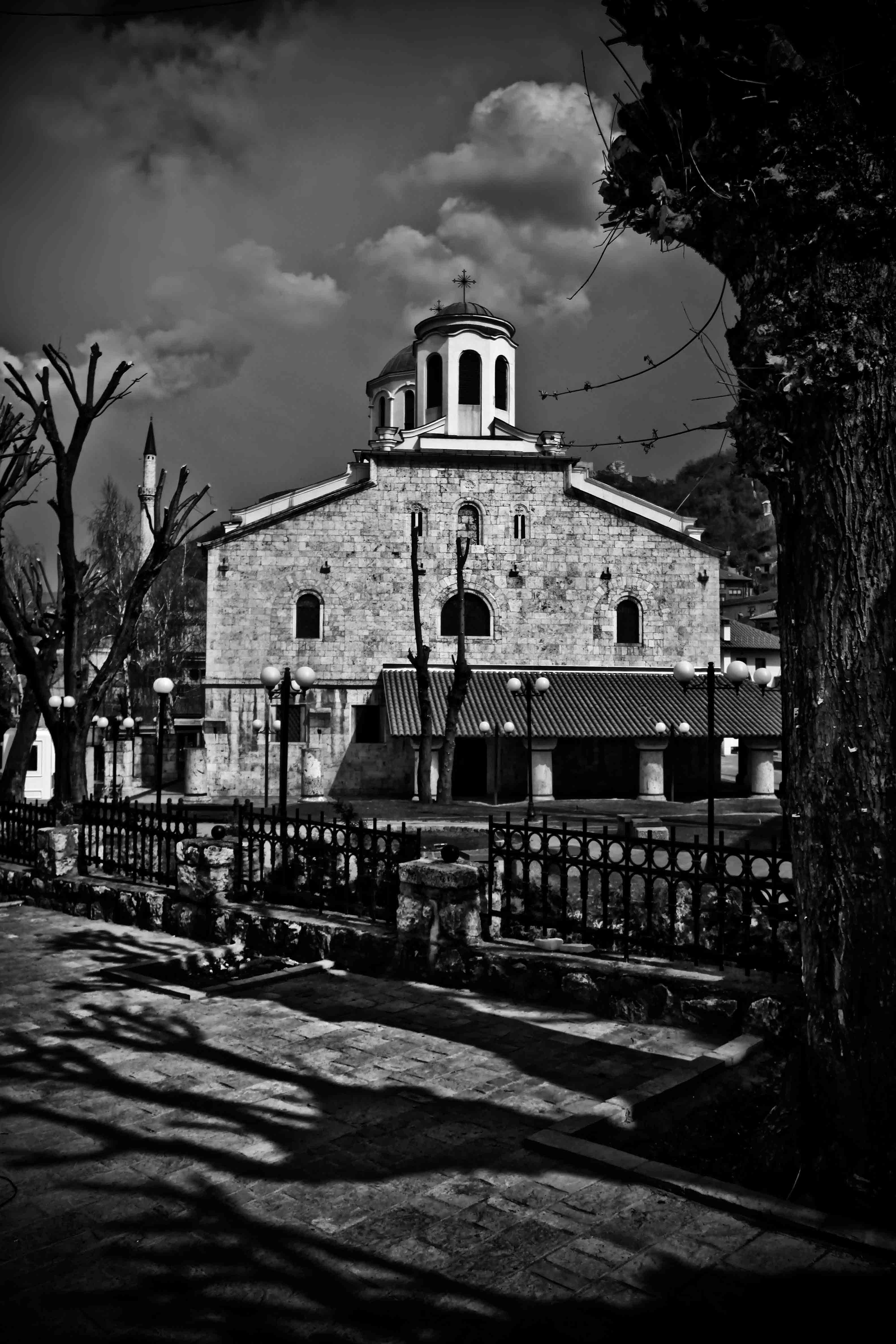 Church in Center of Prizren